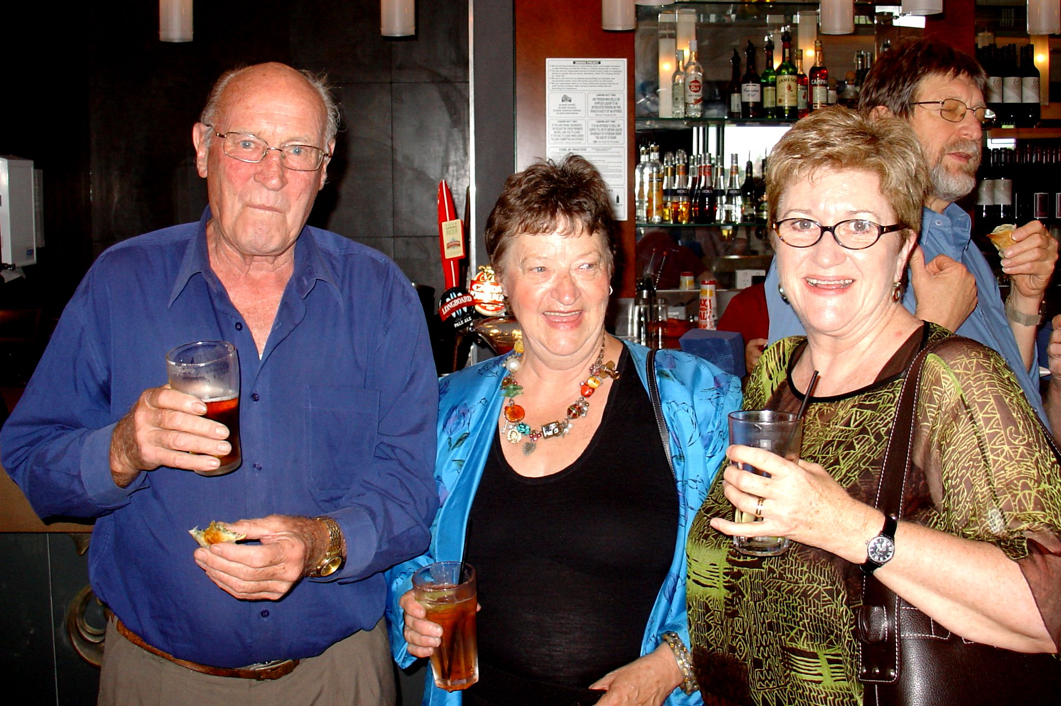 A group of associates of the 1950s Sydney Push attending a reunion at the Harold Park Hotel, Sydney, on 12 February 2012